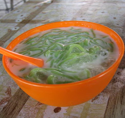 Kulim Cendol